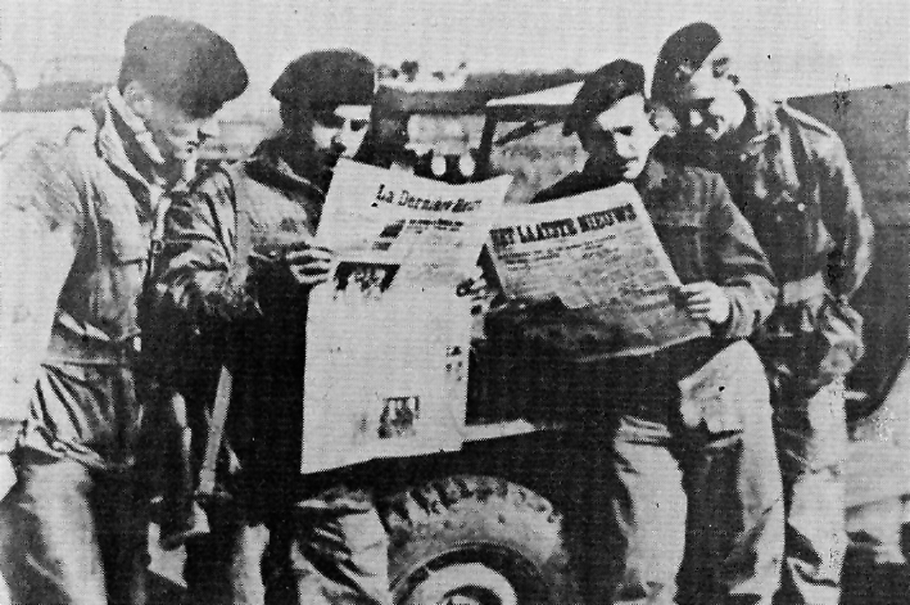 Luxemburg soldiers reading the newspaper at the battlefield. La Dernière Heure (left) and Het Laatste Nieuws (right)